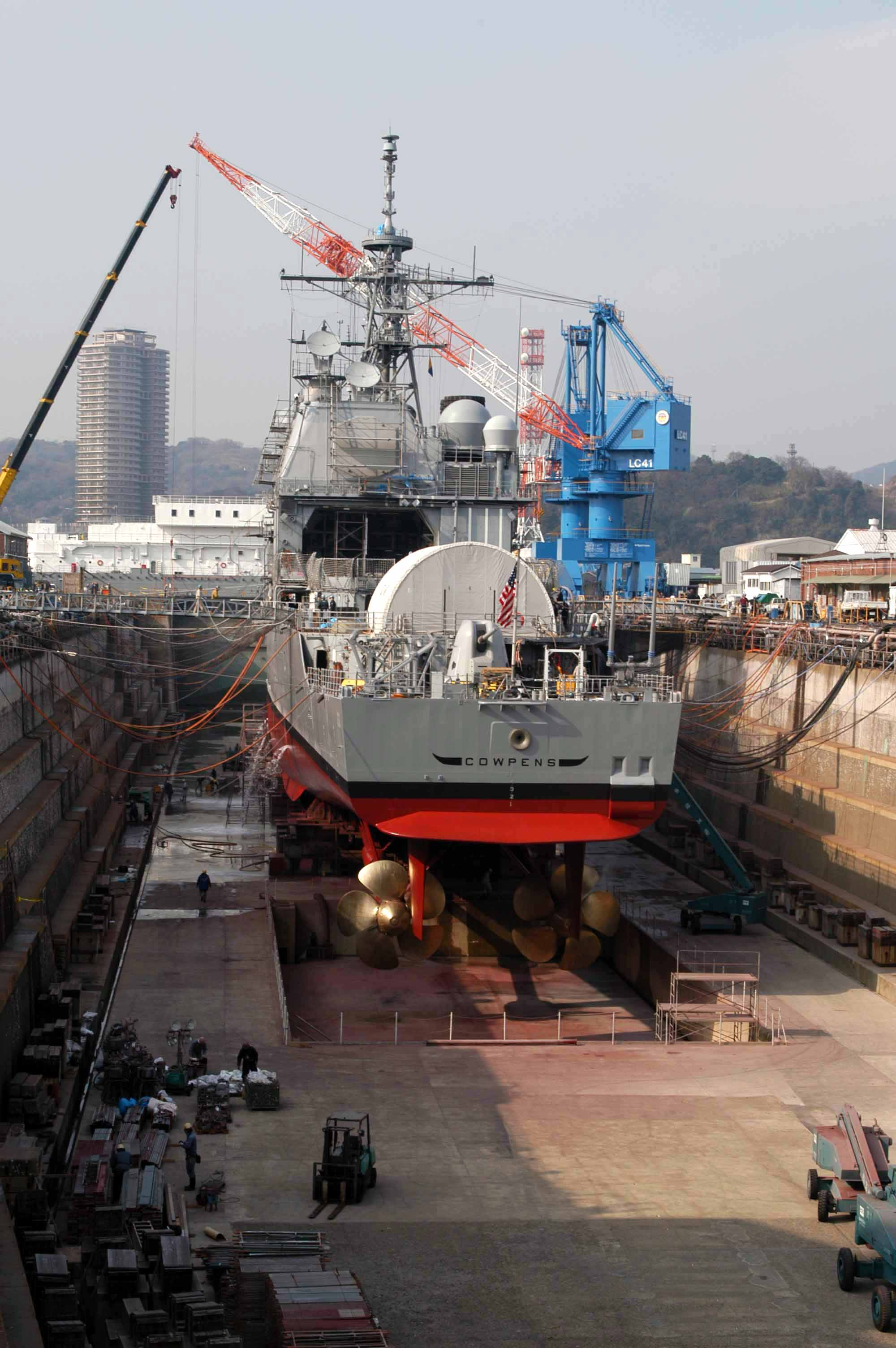 Yokosuka, Japan (Mar. 16, 2004) – The guided missile cruiser USS Cowpens (CG 63) at the completion of its Ship's Repair Force (SRF) dry dock period in Yokosuka, Japan. The Ticonderoga class cruiser is forward deployed to Yokosuka.